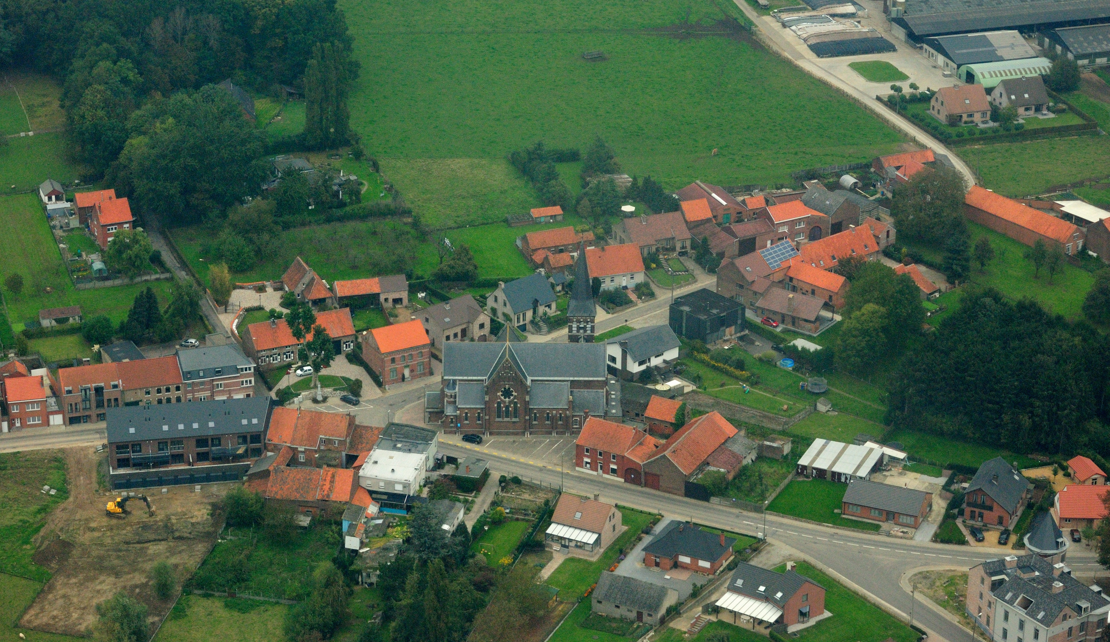 Aerial view from the South towards the old centre of Glabbeek, Belgium. Nikon D60 f=55mm f/9 at 1/320s ISO 800. Processed using Nikon ViewNX 1.5.2 and GIMP 2.6.6.